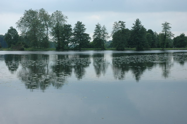 Eleven Acre Lake, Stowe Trees reflected in Eleven Acre Lake in Stowe Landscape Gardens.